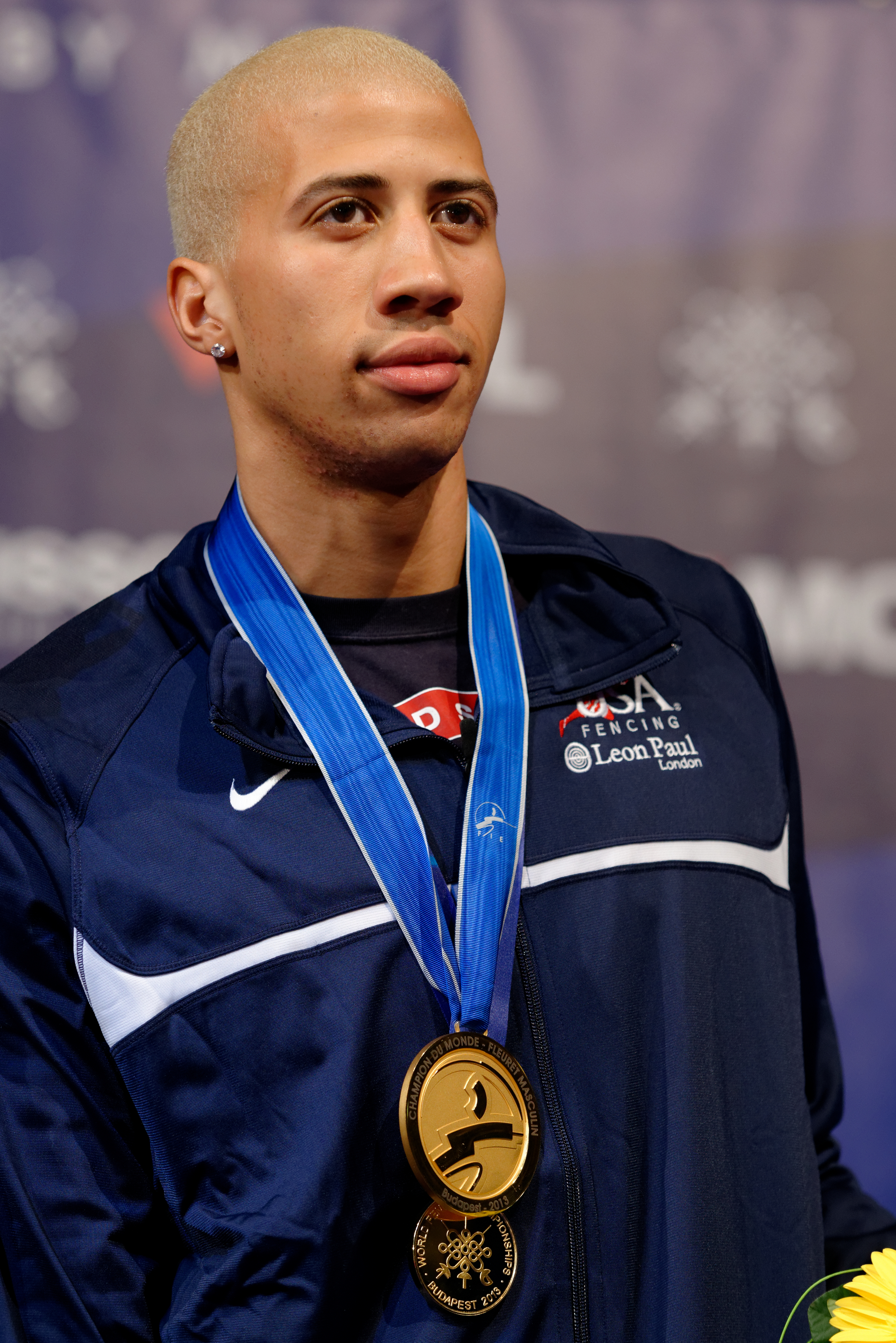 Miles Chamley-Watson of the United States stands on the first step of the podium in men's foil at the 2013 World Fencing Championships 2013 at Syma Hall in Budapest on 9 August 2013.